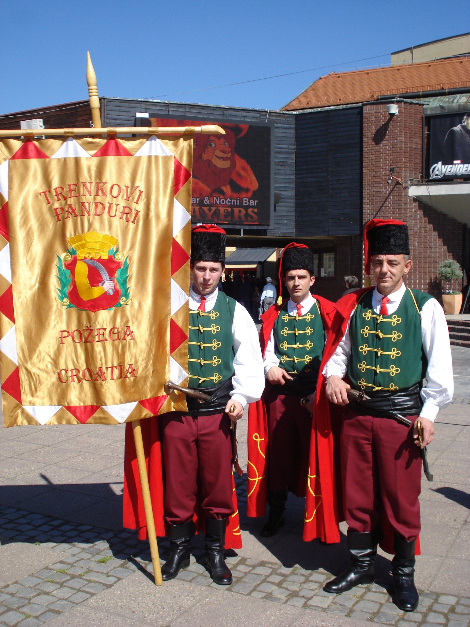 "Trenck's Pandurs", a historical military unit from the Town of Požega, Croatia, during The Medjimurje County Day celebration (30th April 2011) in Čakovec